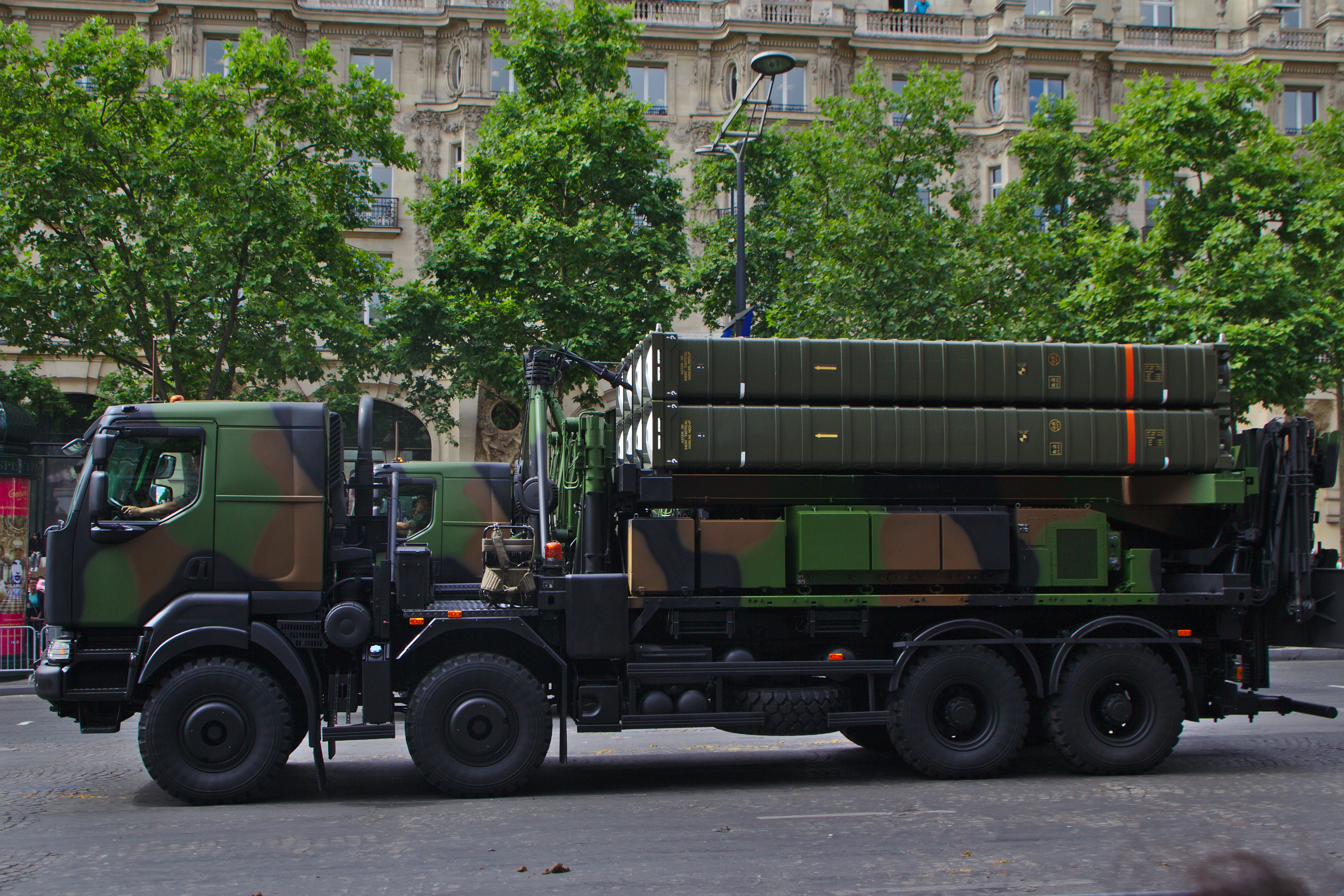 Bastille Day 2015 military parade in Paris. Transporter erector launcher (Modules de lancement terrestre) of ASTER missile, Escadron de défense sol-air 05.950 Barrois, Saint-Dizier – Robinson Air Base.